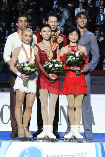 Pairs podium at the 2010 World Championships. Aliona Savchenko / Robin Szolkowy; Pang Qing / Tong Jian; Yuko Kawaguchi / Alexander Smirnov.